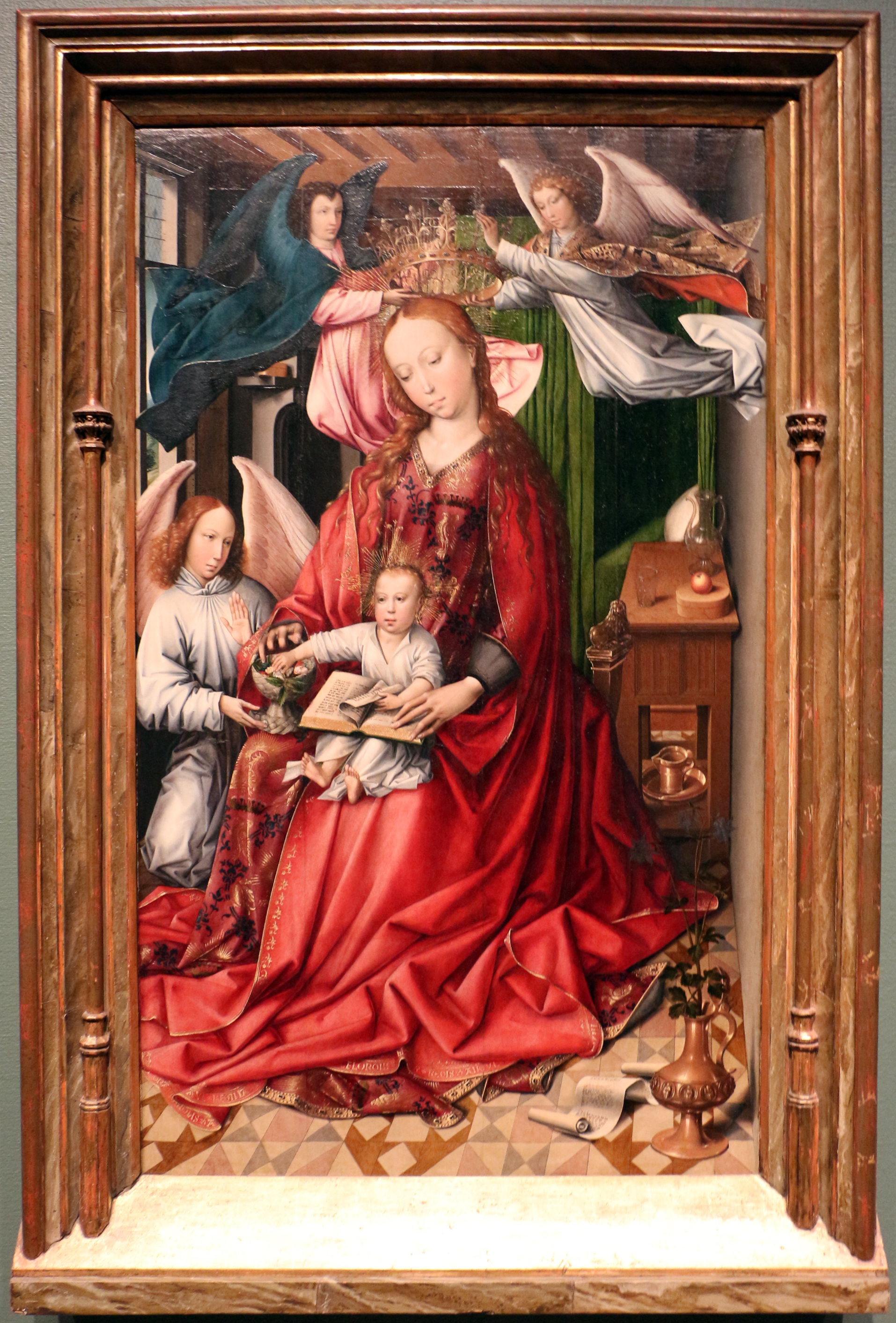 Flemish paintings in the Art Institute of Chicago